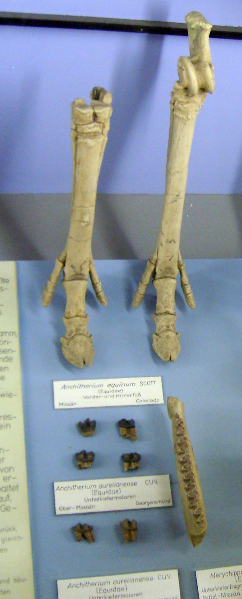 Cropped image of taxon in file name